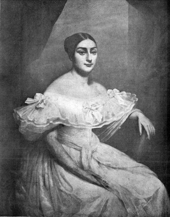 Photograph of a portrait painting of Cornélie Falcon by Coedès (Musée de l"Opéra) reproduced following p. 106 in Braud, Barthélemy (1913). "Une reine du chant: Cornélie Falcon". Bulletin historique 3: 73–108. Le-Puy-en-Velay: Société Scientifique & Agricole de la Haute-Loire.